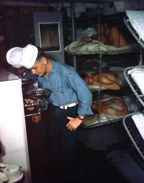 Crew members get a drink of water from a crew's quarters scuttlebutt, as other men rest and read in hanging berths.